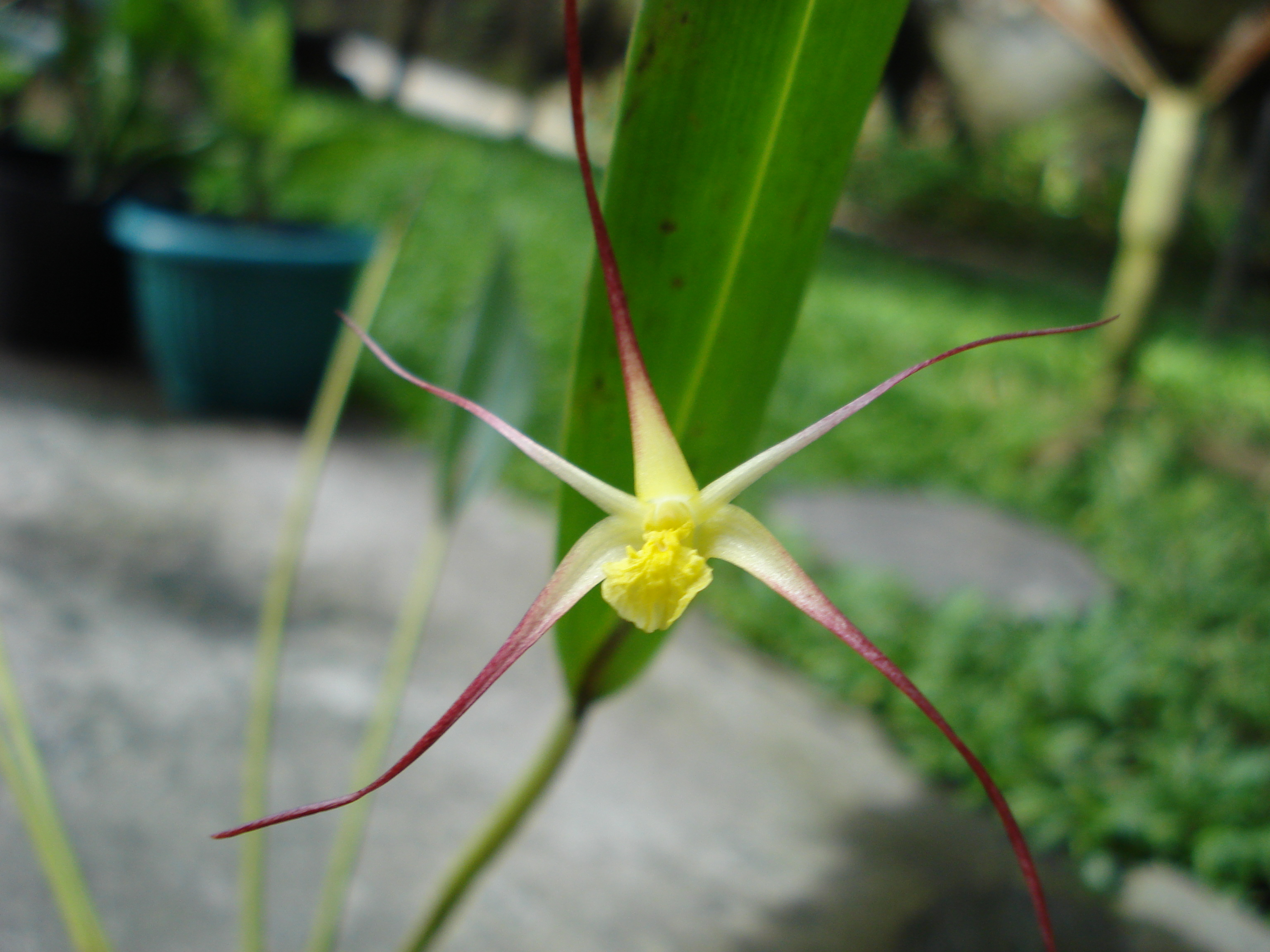 photo taken at backyard. need identification on the species name.